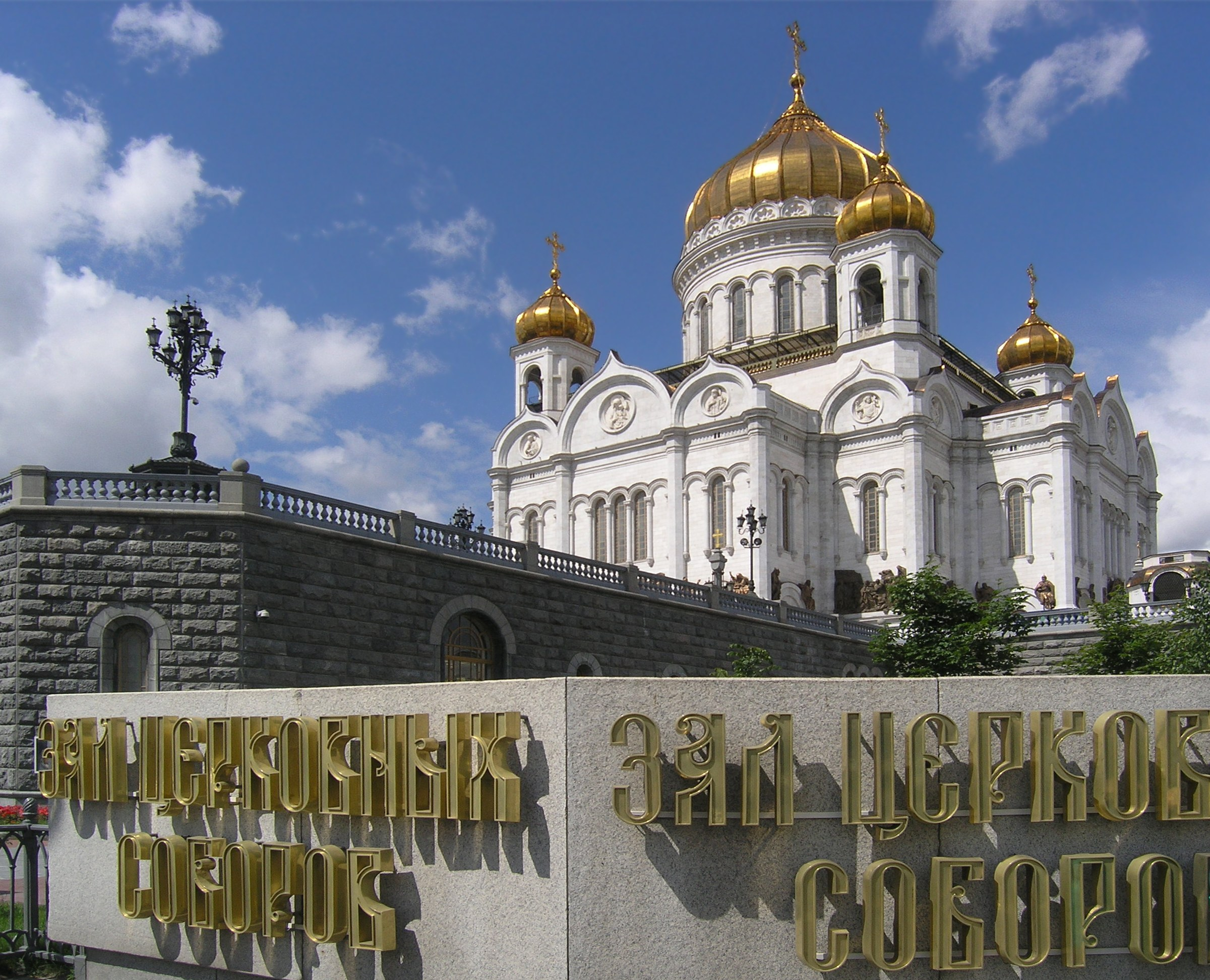 Cathedral of Christ the Saviour (Moscow)